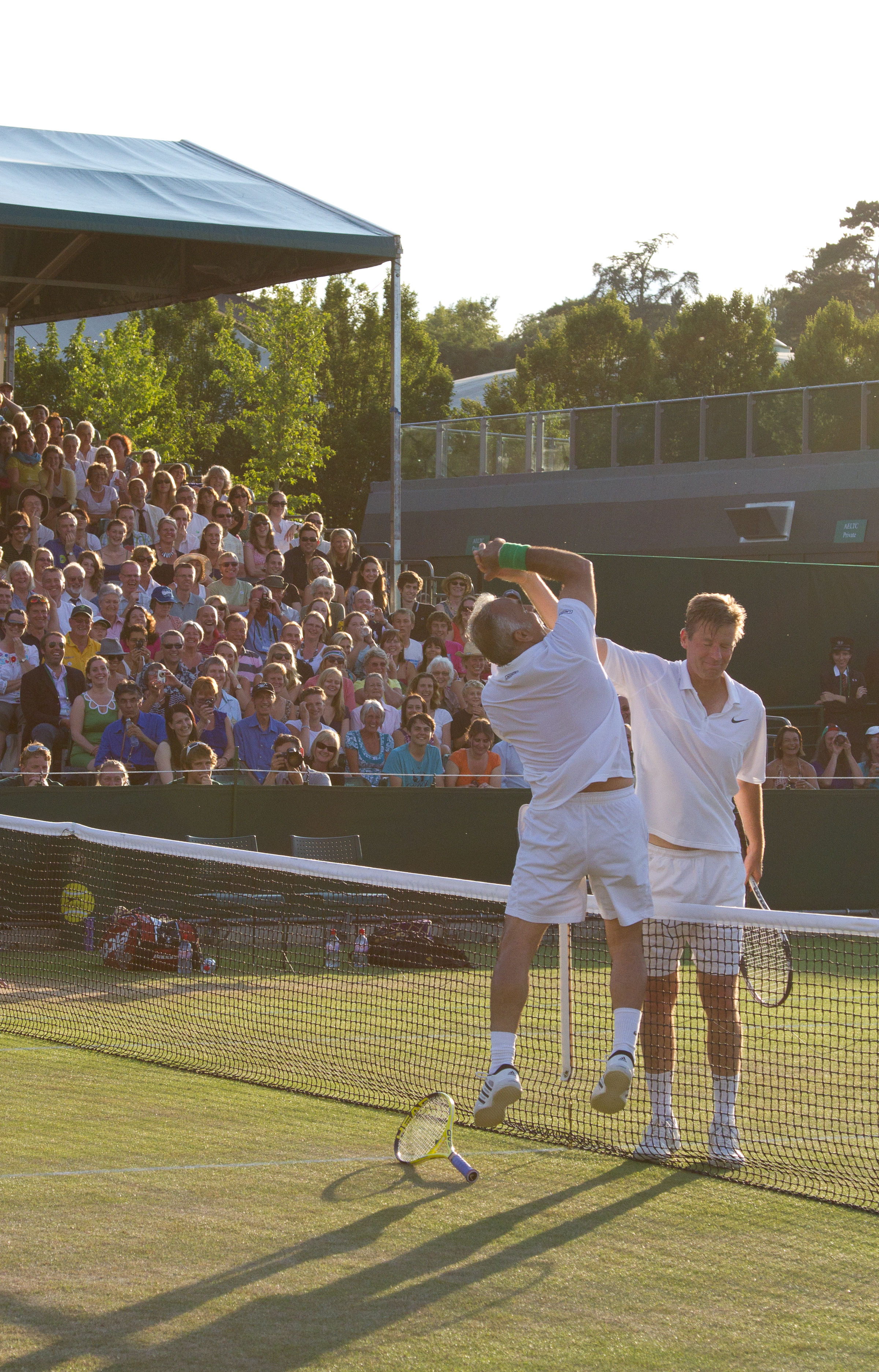 Mansour Bahrami and Peter Fleming @ Wimbledon 2010